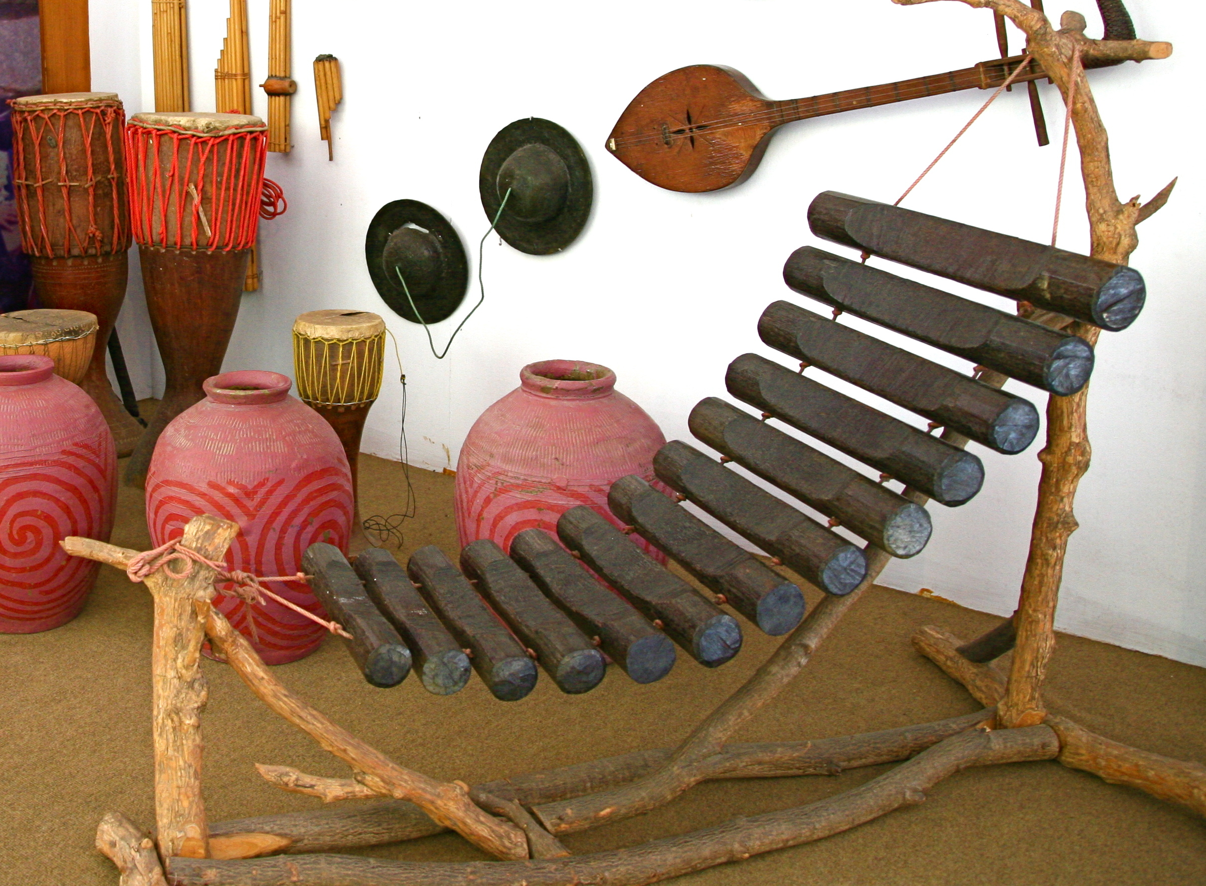 Pong Lang xylophone (โปงลาง) on a frame; the instrument is from Northeast Thailand.